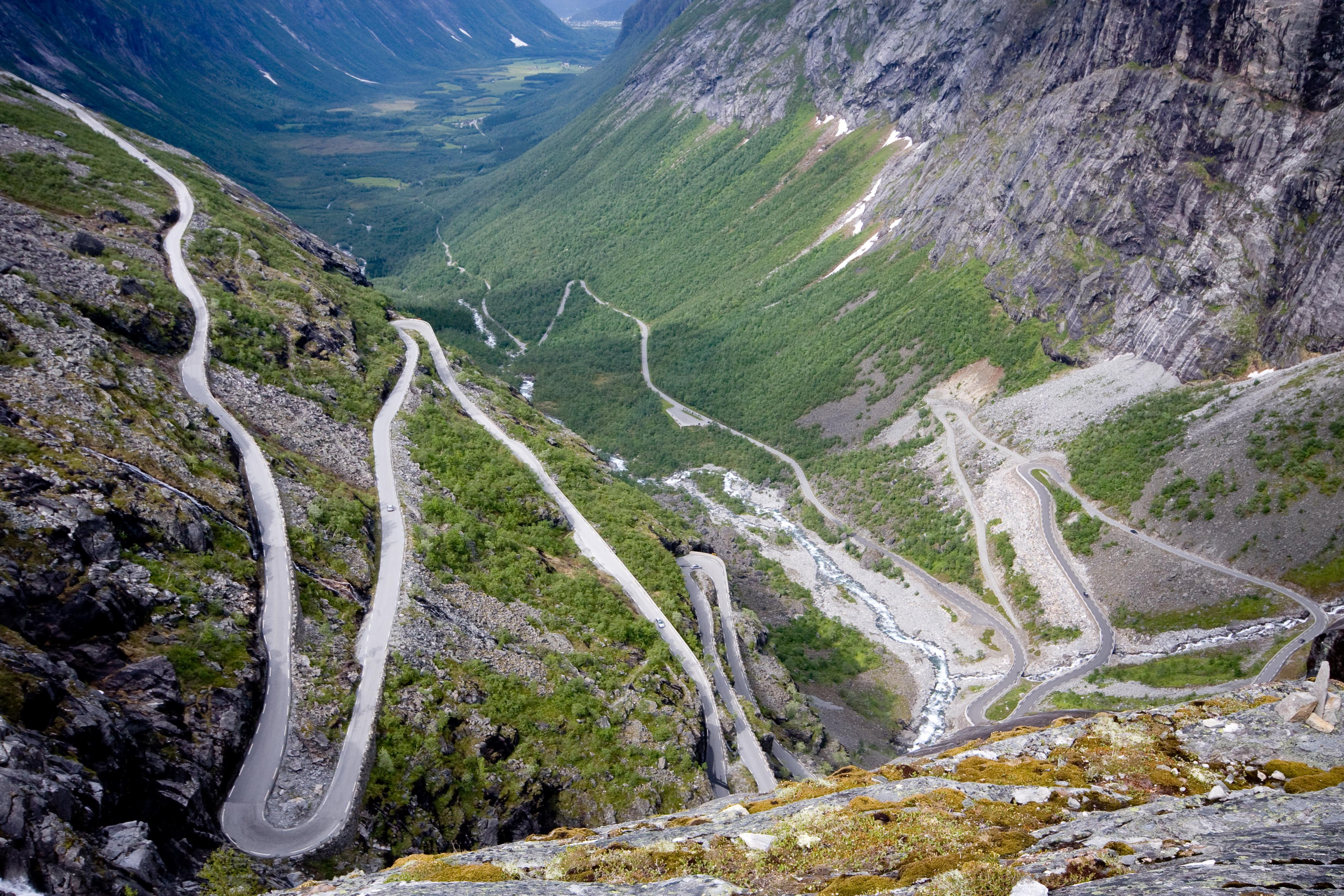 trollstigen, norway, mountain street